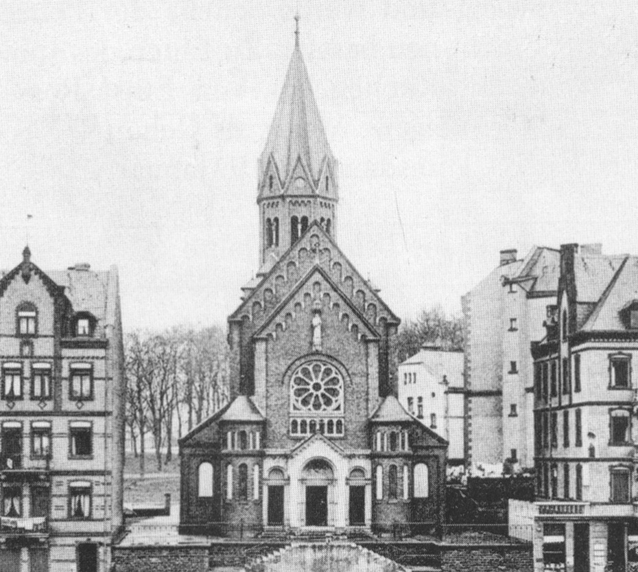 Old St. Antonius church in Koblenz